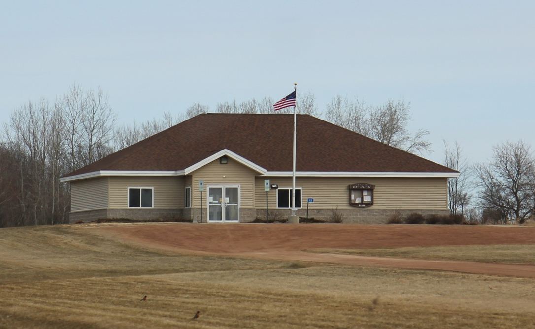 The town hall for the town of Day, Wisconsin near Rozellville.